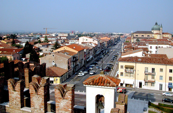 Panoramic view from the Scaliger castle of Villafranca di Verona, in Italy.